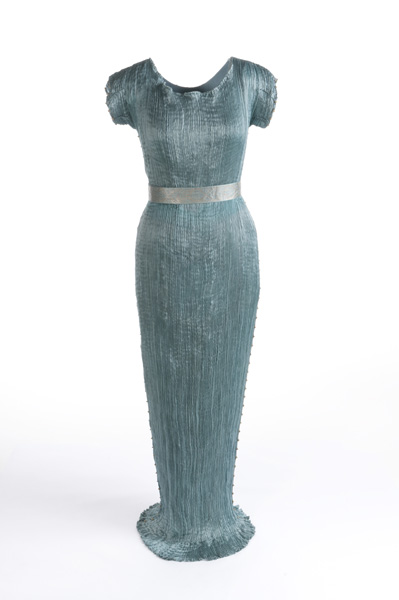 Celadon green pleated silk satin dress.